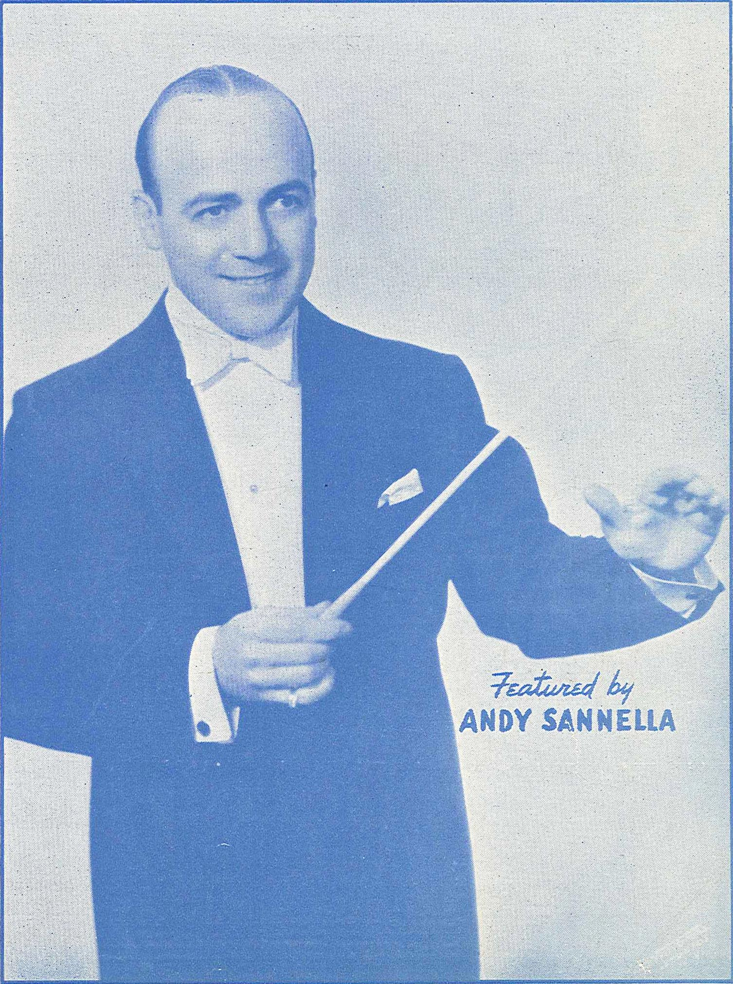 Andy Sannella (1900-1962), American multiinstrumentalist, conductor and bandleader.